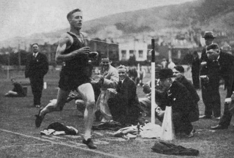 C. H. Matthews finishing the three miles Empire Games Trial at Wellington